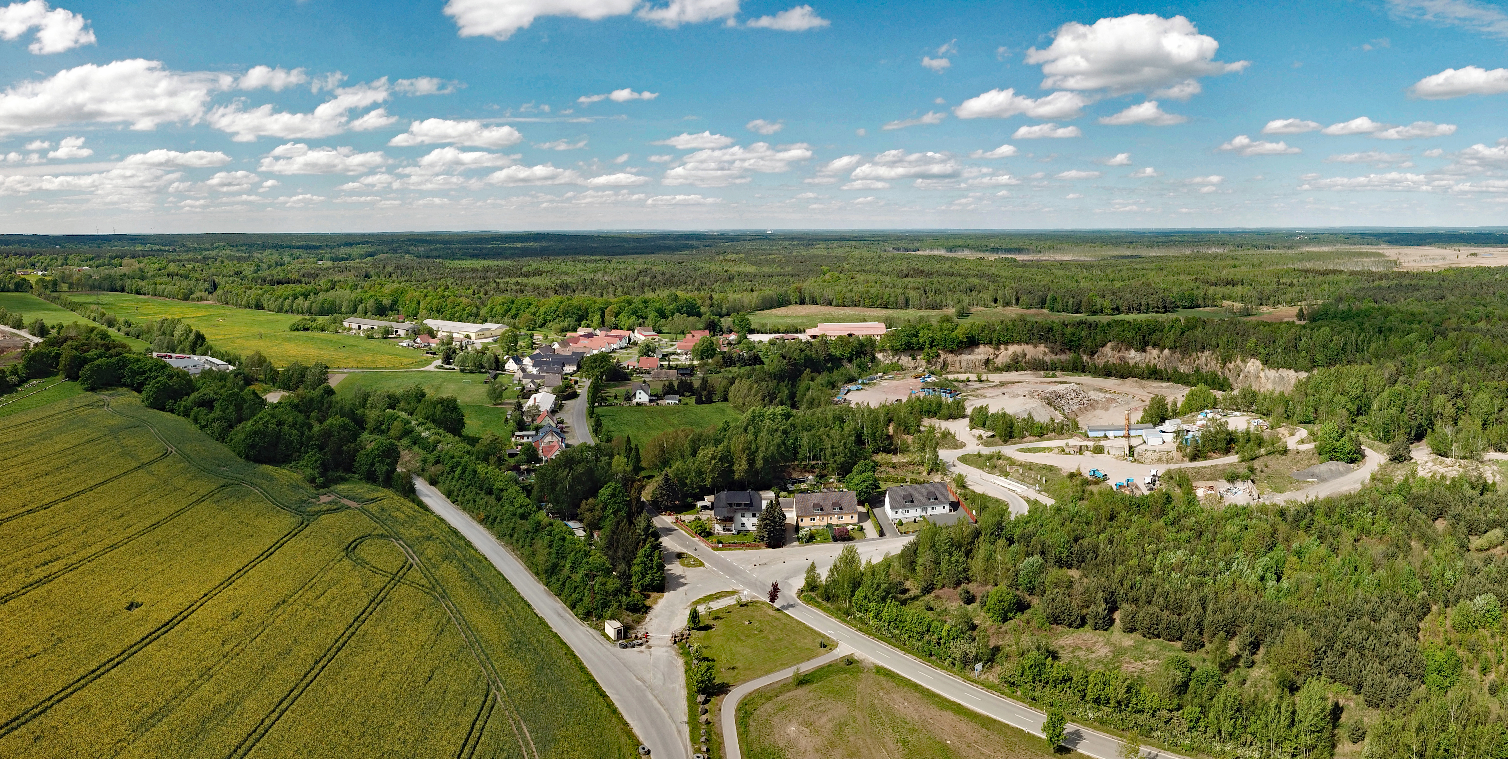 Dubring (Wittichenau, Saxony, Germany) Hornjoserbsce: Powětrowy wobraz Dubrjenka